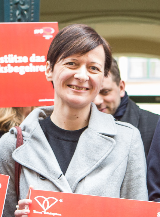 Foto: Astrid Knie